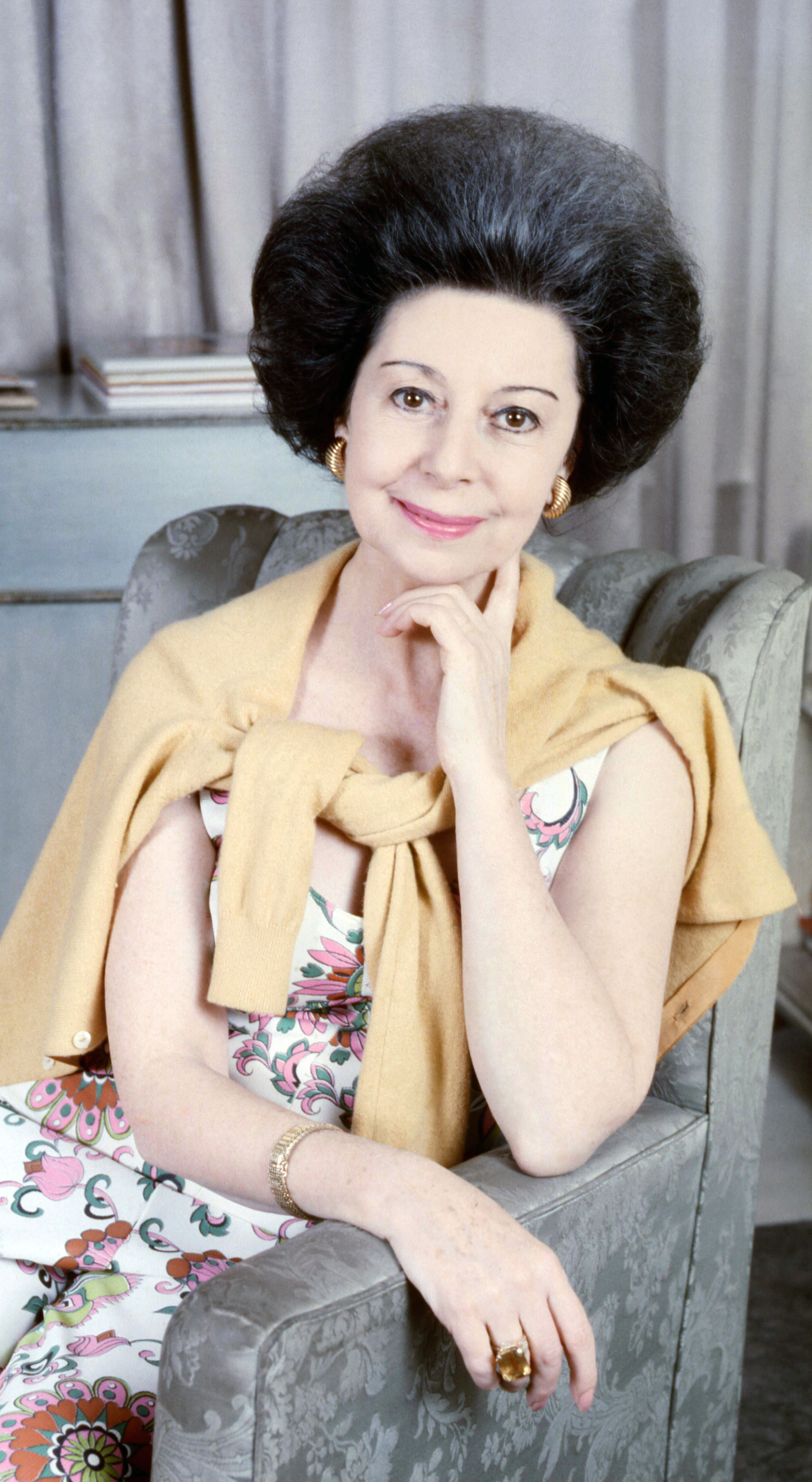 Dame Alicia Markova taken in her apartment London